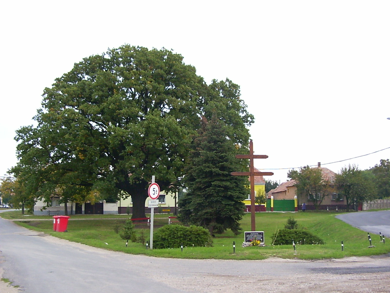 Babót, Royal tree